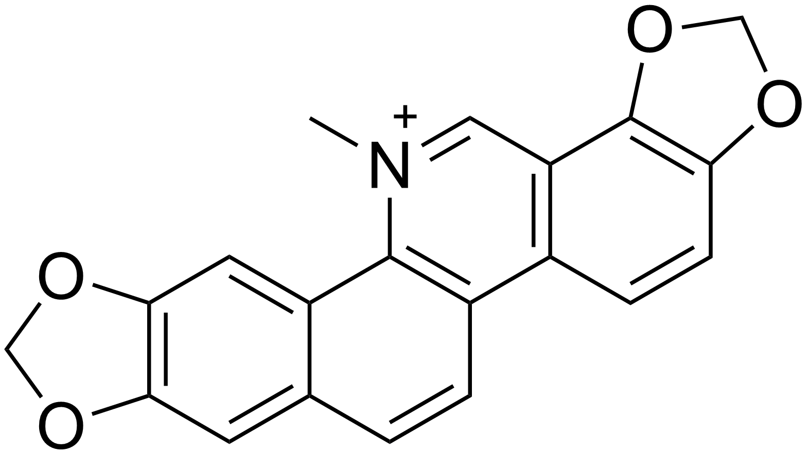 chemical structure of sanguuinarine